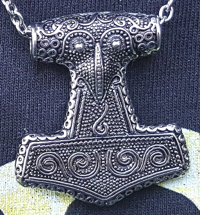 A copy of the Thor's hammer from Skåne (Scania), Sweden. The original Thor's hammer is made of silver. It was created around 1000 AD and found in 1877.